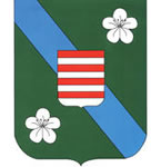 Coat of arms of Sződliget, Hungary